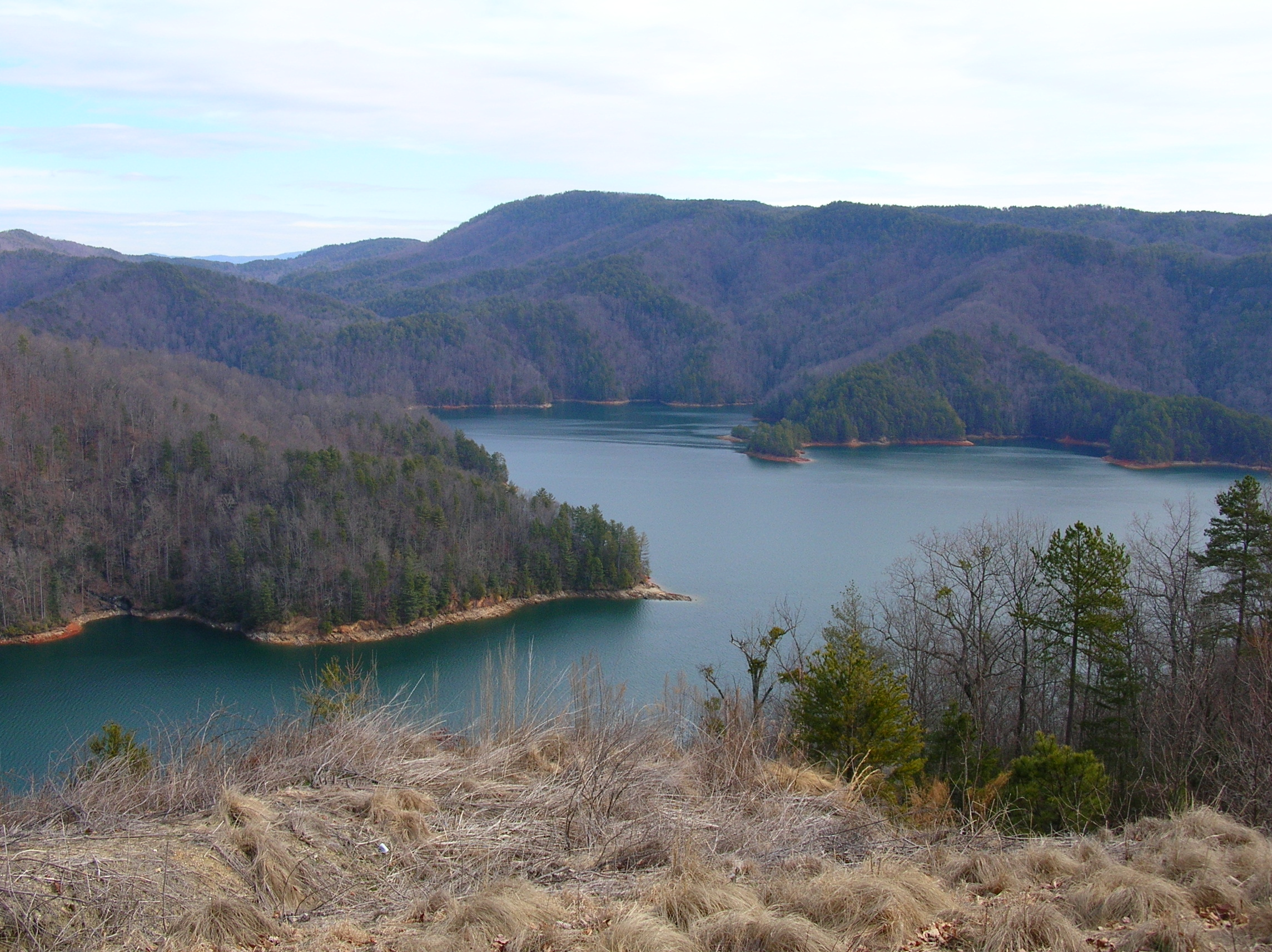 Picture of Lake Jocassee from a look-out tower in the direction of Whitewater River.